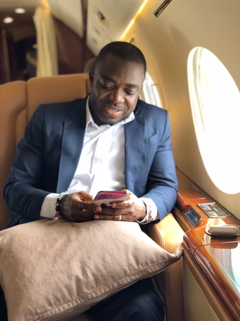 Sammy Flex in a private jet on a NAM Mission